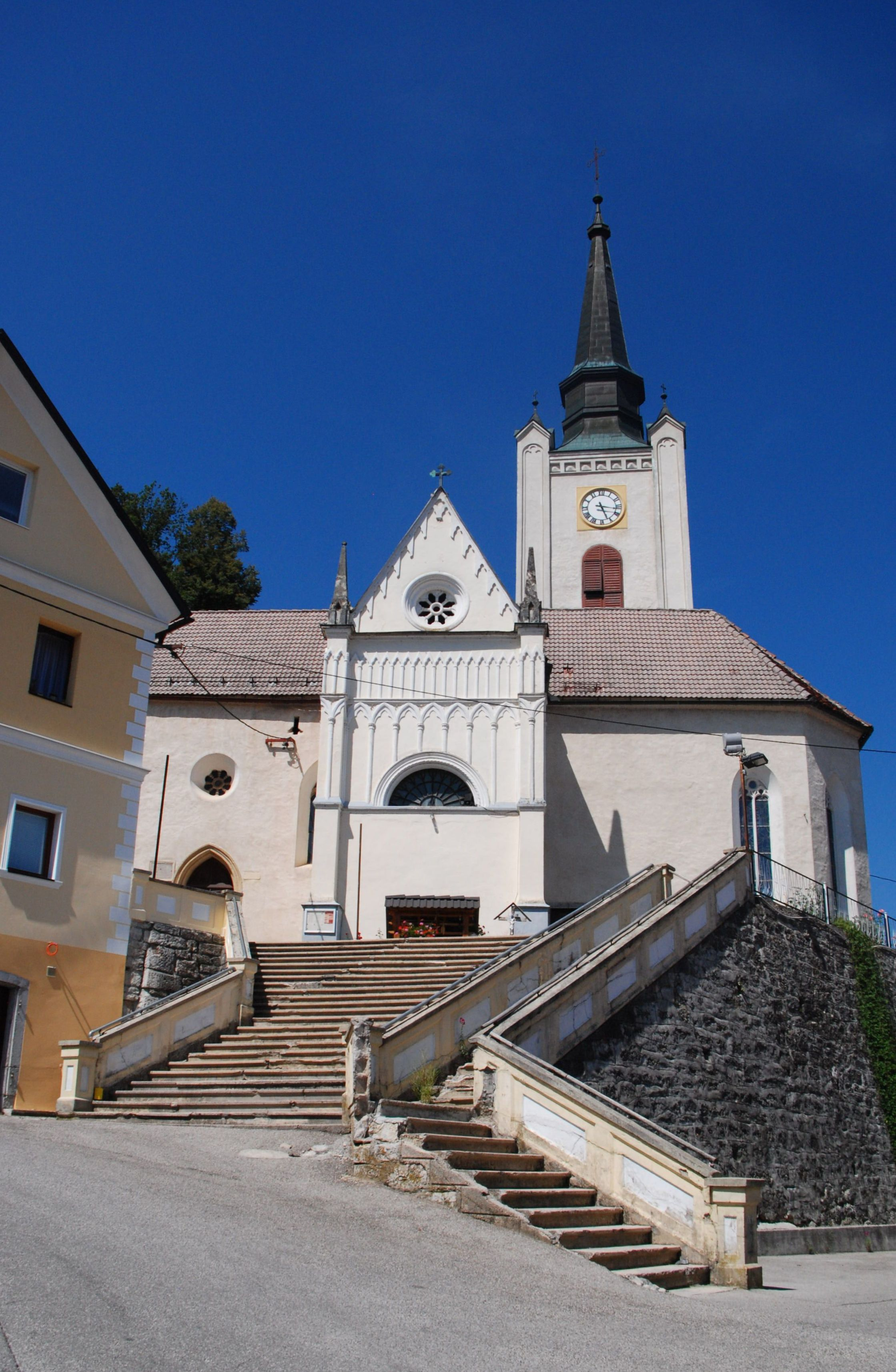 St. John the Baptist's Parish Church in Mirna, Slovenia.